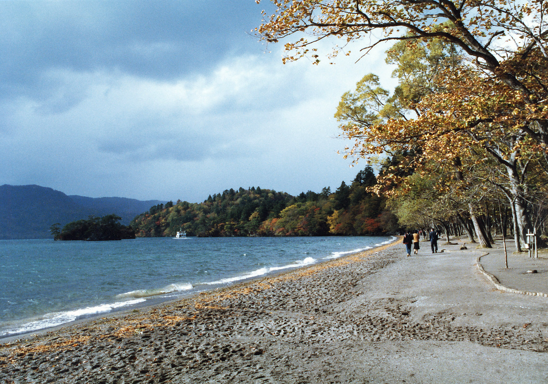 Lake Towada, Akita Prefecture and Aomori Prefecture, Japan. I took this photo circa 1987.